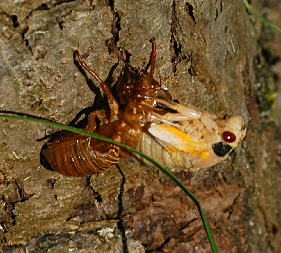 Emerging Cicada, by user Lorax